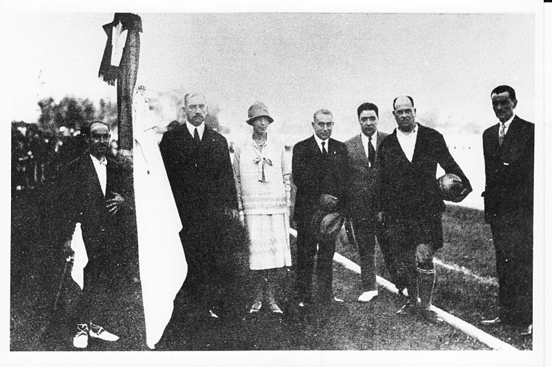 Stadium Gal Inauguration